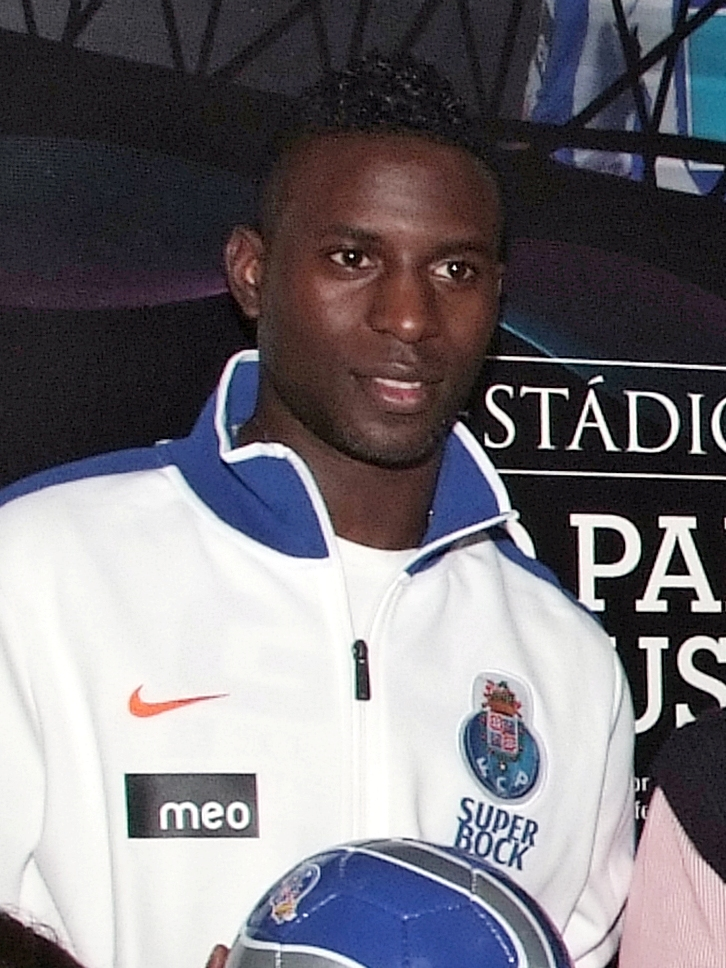 Football player Silvestre Varela at an Exponor exhibition, in Porto, Portugal.